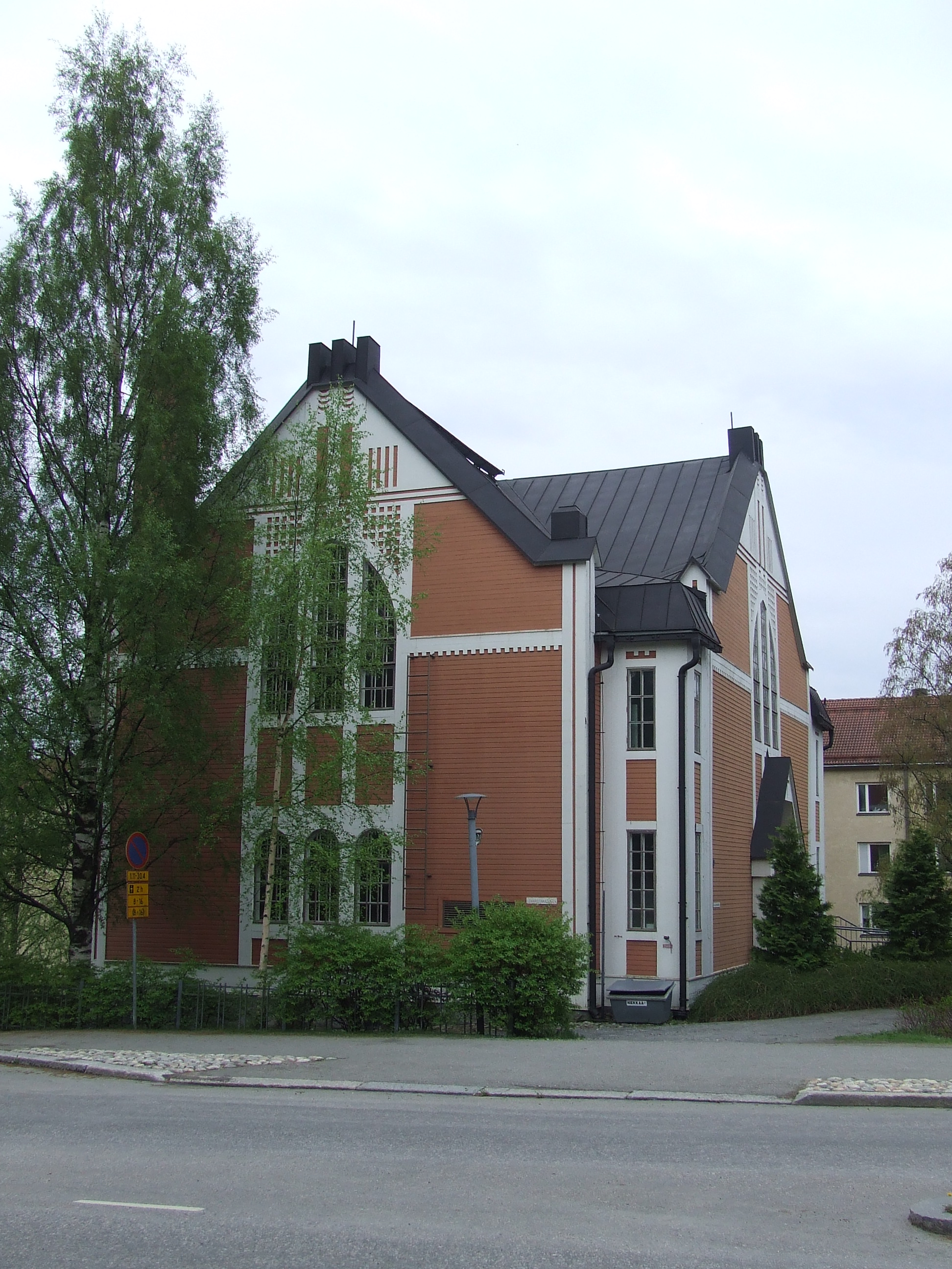 The Roman Catholic church of Saint Joseph (also known as the old church of Männistö) in Kuopio, Finland.